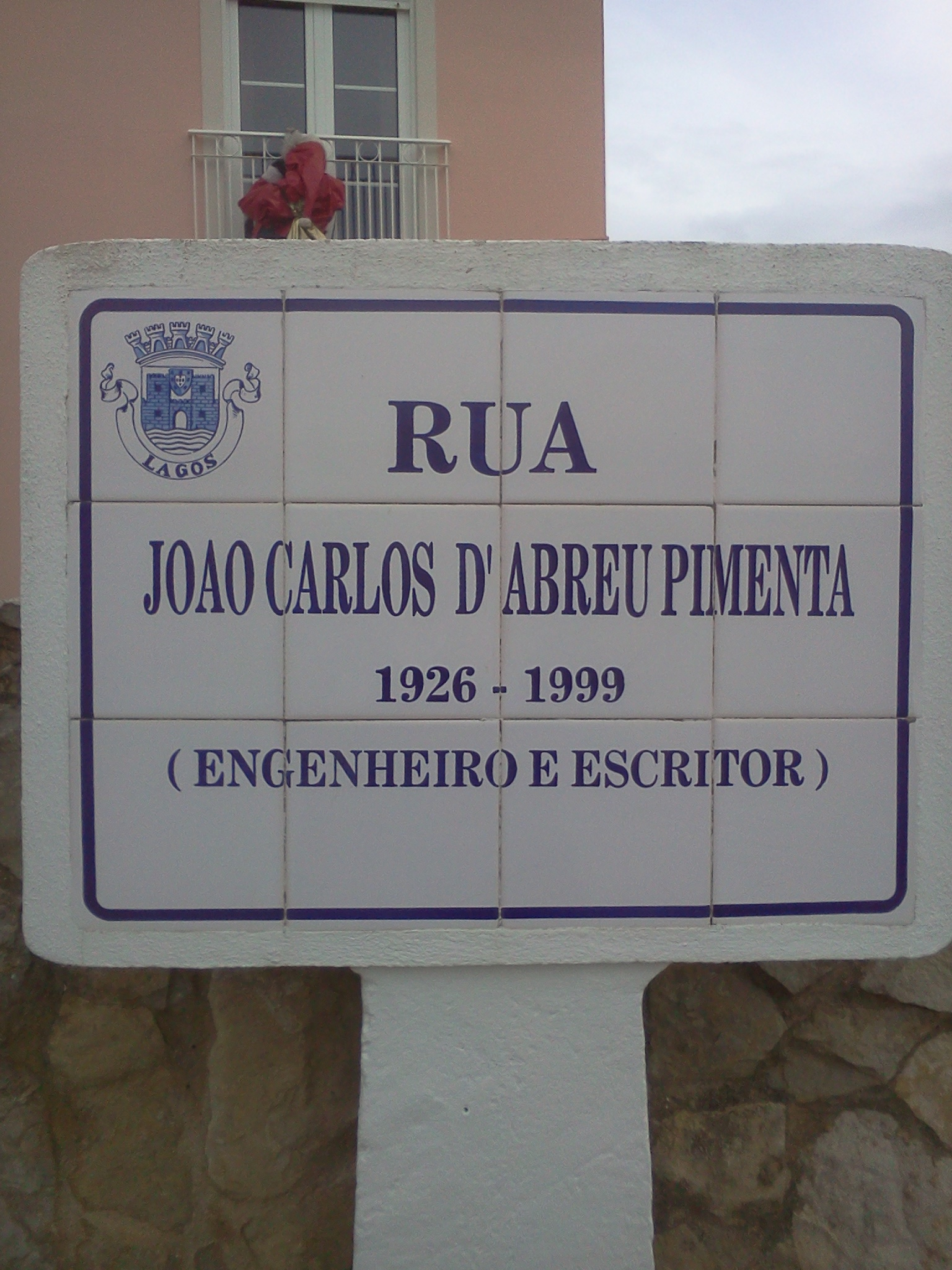 Street sign of Rua João Carlos de Abreu Pimenta, in the city of Lagos, in southern Portugal.